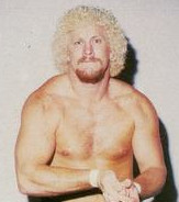 Professional wrestler David Shultz